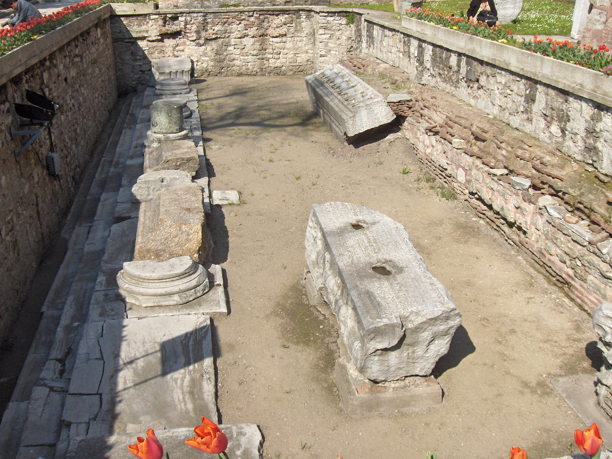 Hagia Sophia,remains of the older basilica, built under emperor Theodosius II; Istanbul, Turkey